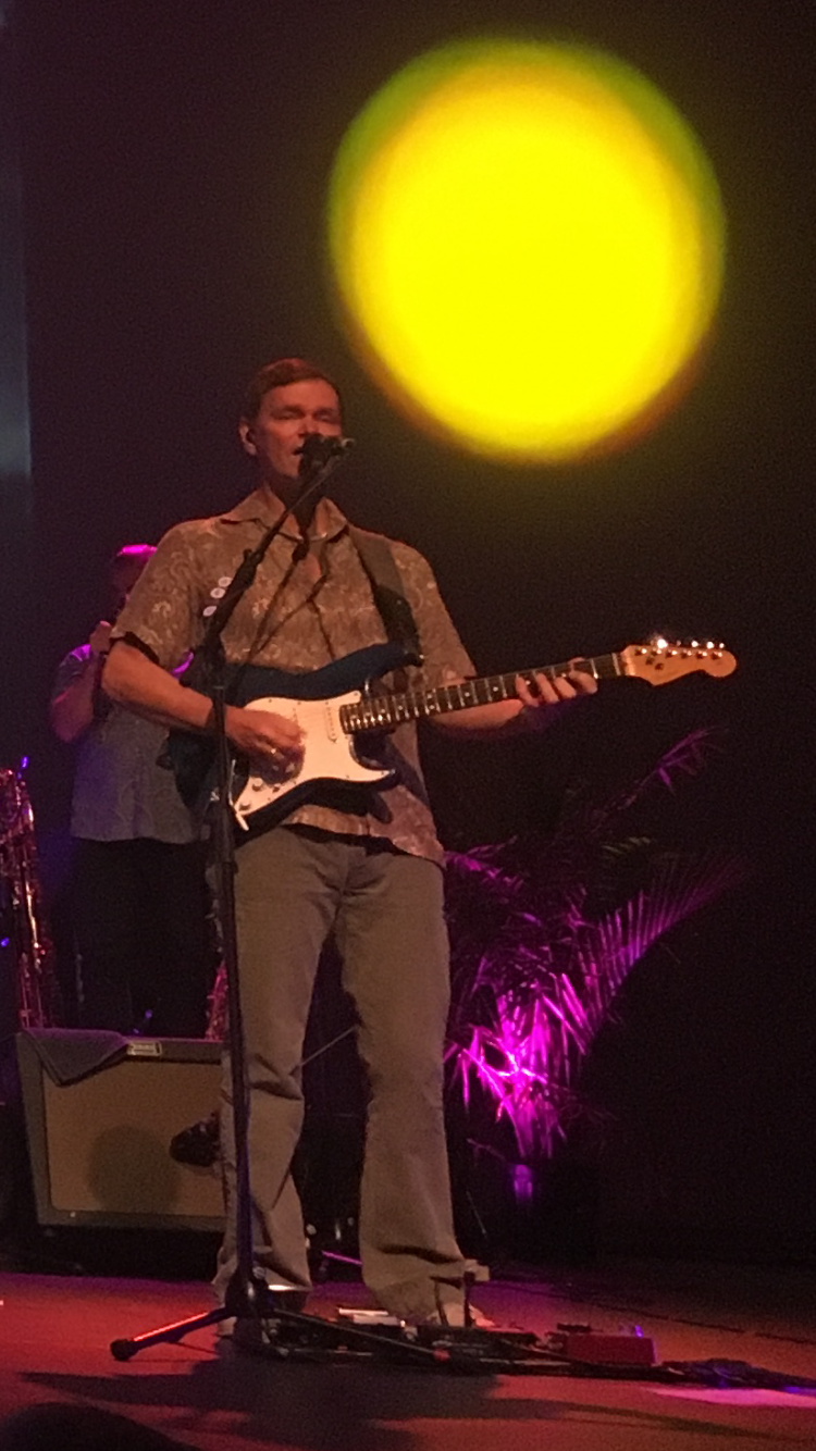 Totten performing with The Beach Boys, 2017